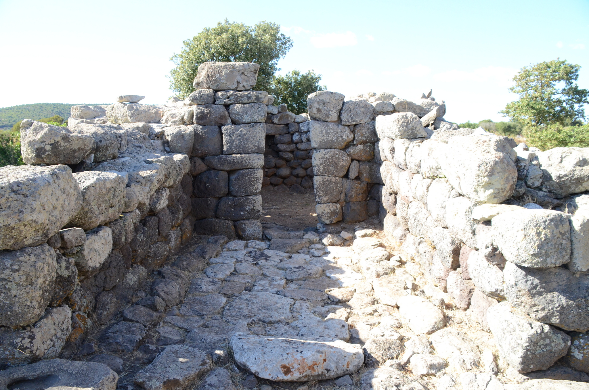 Tempio in natis capanna del capo - ingresso